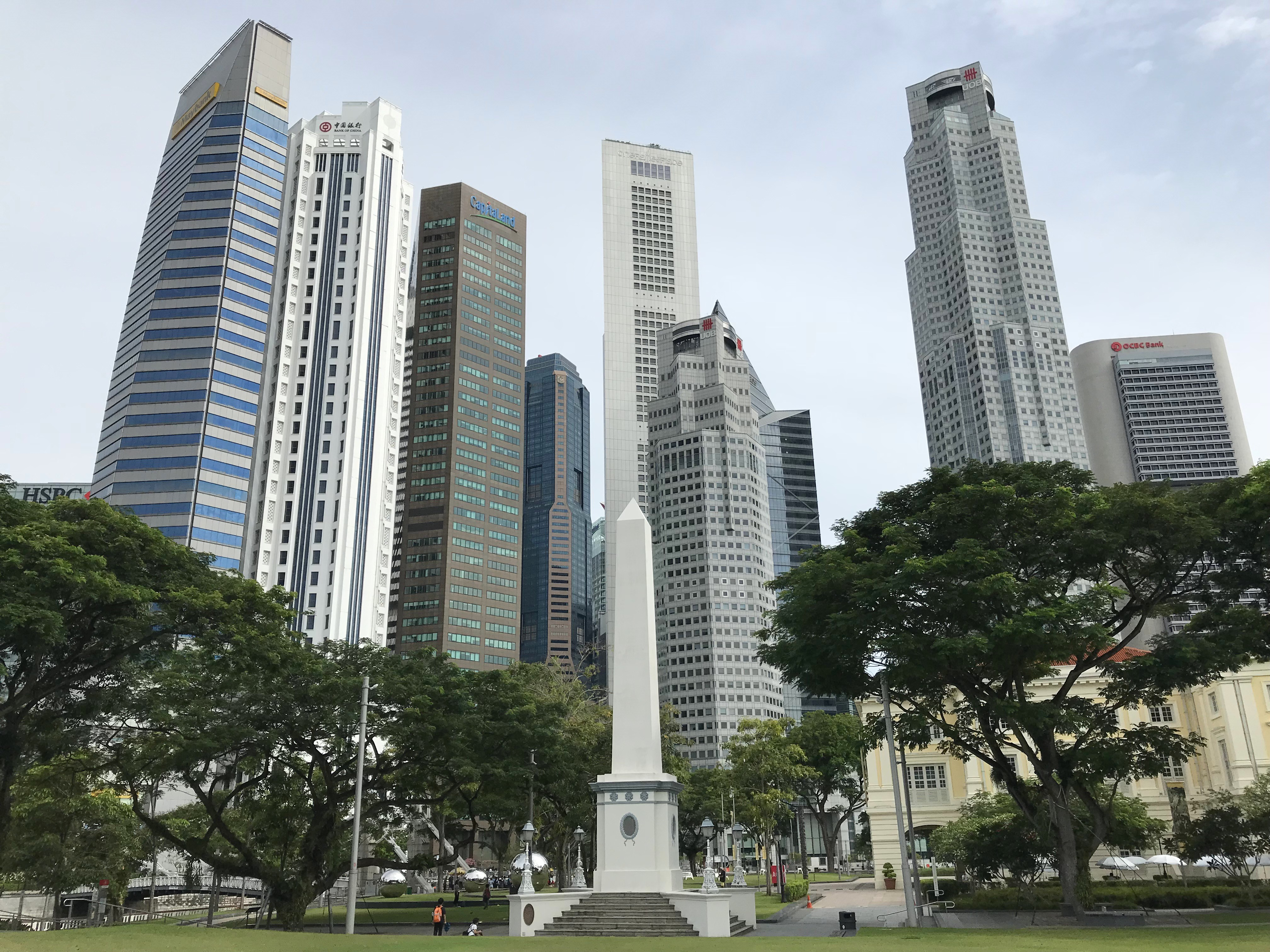 Skyscrapers in Singapore